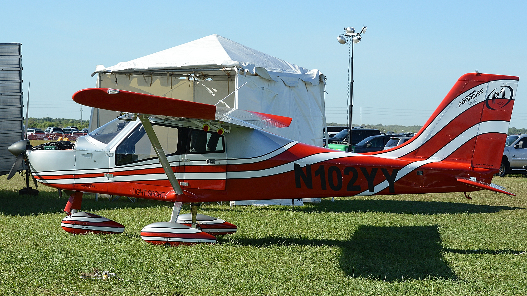 Paradise P-1 LSA at Lakeland Linder Regional Airport, Florida